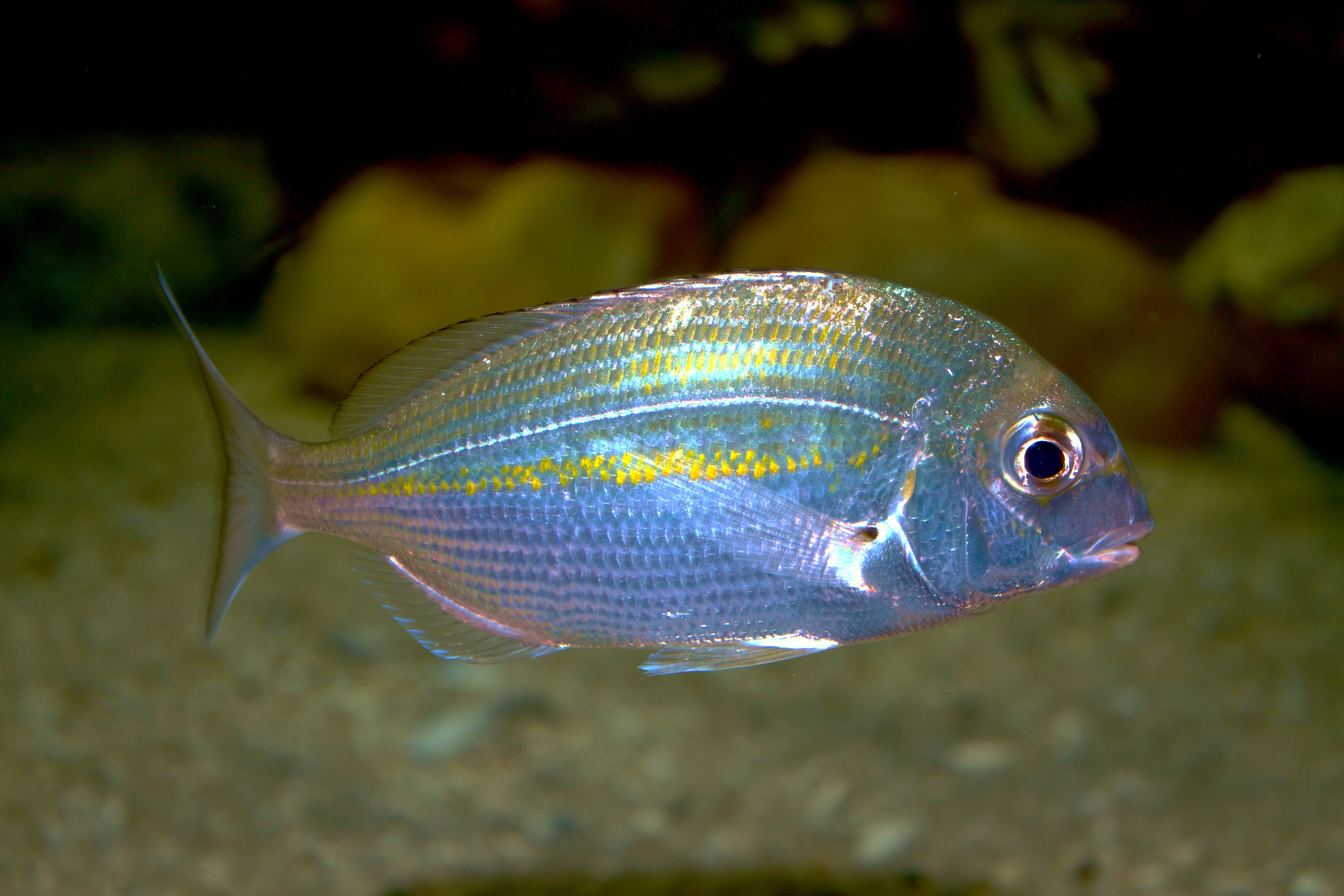 Rhabdosargus holubi, Cape Town, South Africa